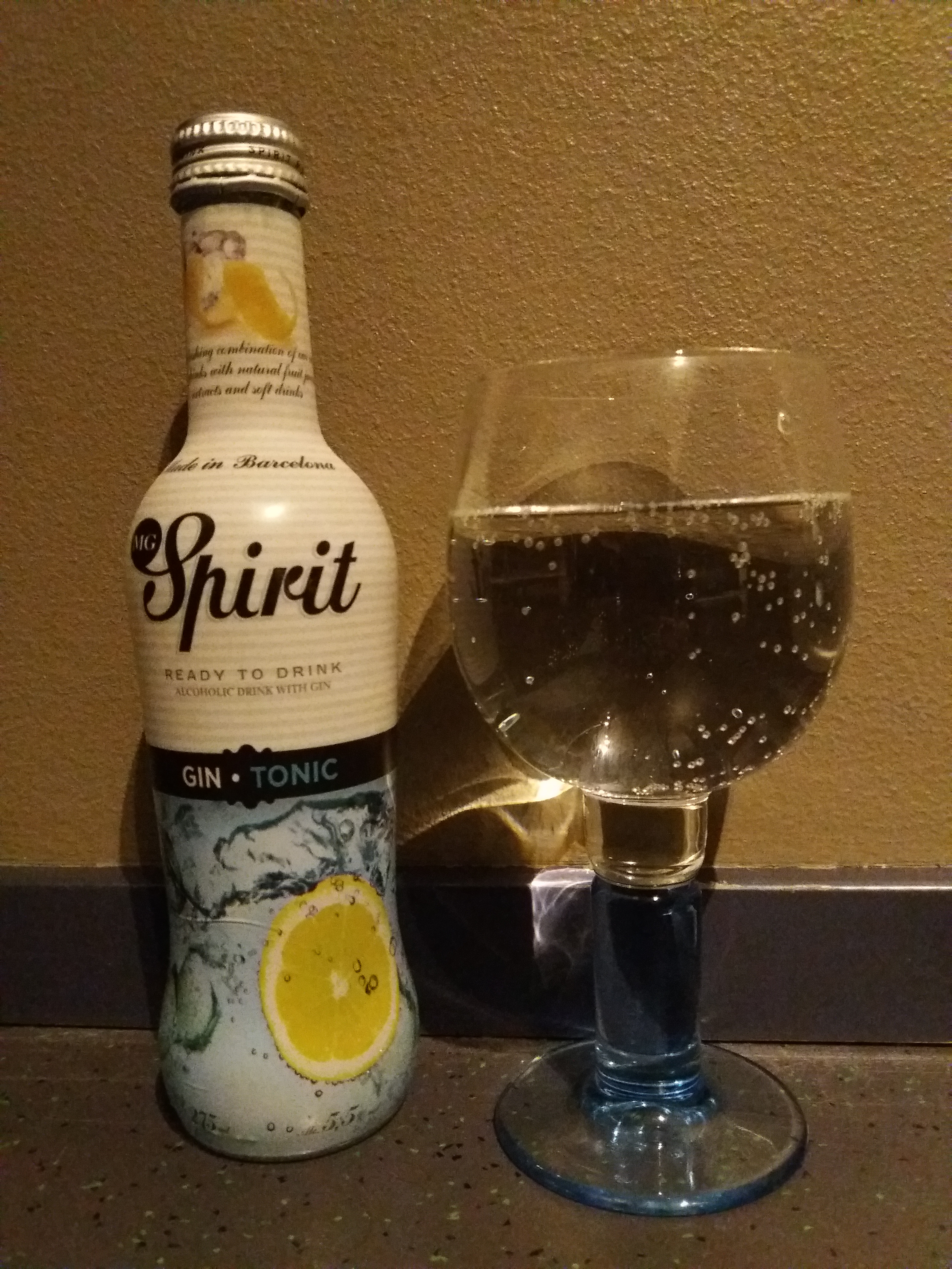 A ready to drink cocktail with gin and tonic manufactured by Spanish beverage company MG Spirit